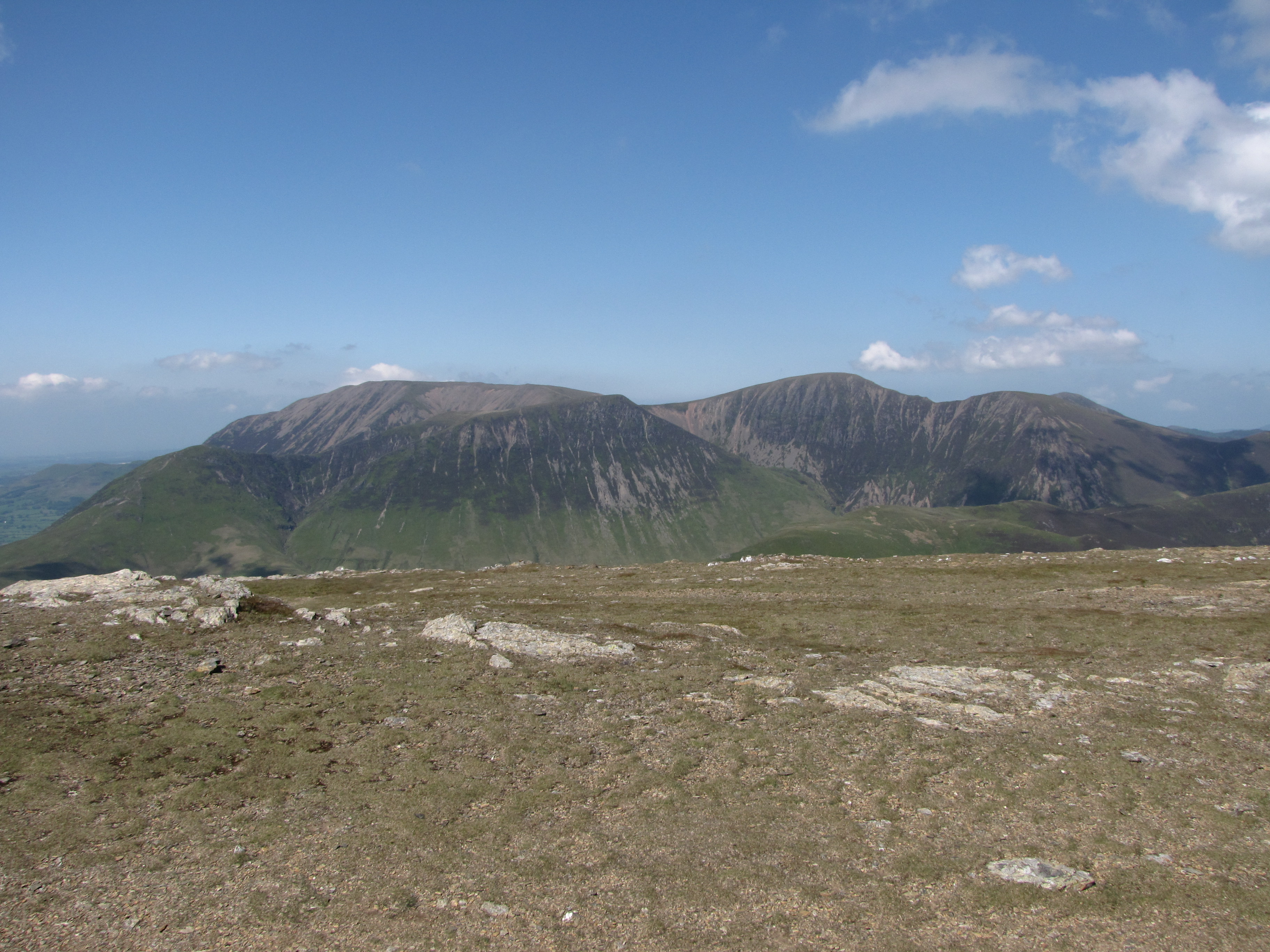 Looking NW from the summit of the fell Robinson in the English Lake District to the Coledale Fells.